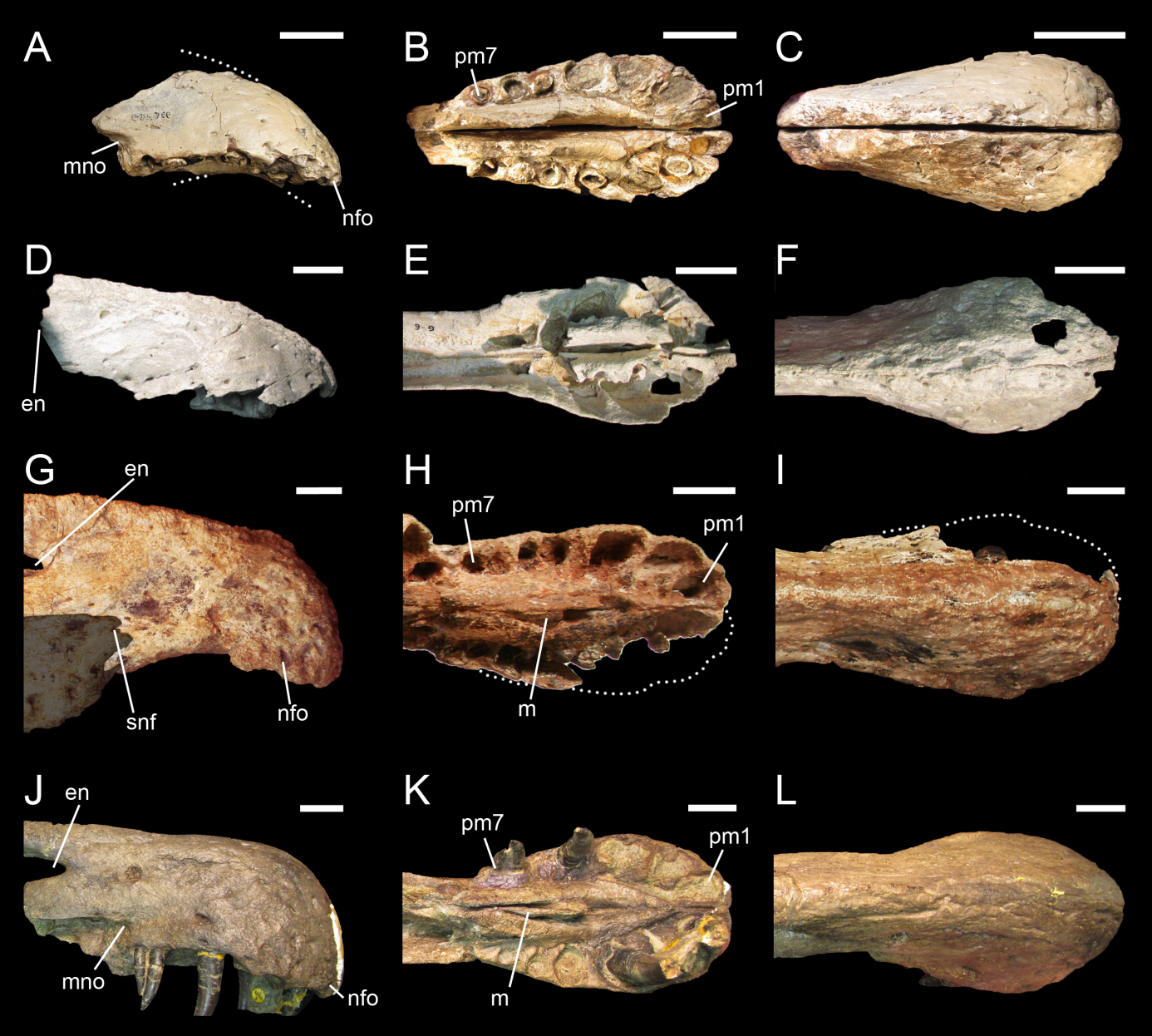 Articulated premaxillae of Baryonychinae in A, D, G, J, lateral, B, E, H, K, palatal, and C, F, I,L, dorsal views. A‒C, Cristatusaurus lapparenti (MNHN GDF366; A left reversed); D‒I, Suchomimus tenerensis (D‒F, MNN GADG-6; G‒I, MNN GAD501; photos courtesy shared by Roger Benson for G, and Juan Canale for H and I); and J‒L, Baryonyx walkeri (NHM R.9951). Abbreviations: en, external naris; m,maxilla; mno, maxillary notch of the premaxilla; nfo, neurovascular foramina; pm1, first premaxillary alveolus;pm7, seventh premaxillary alveolus; snf, subnarial foramen. Scale bar = 3 cm.